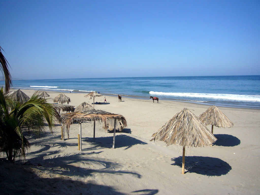 The beach in Mancora, Peru